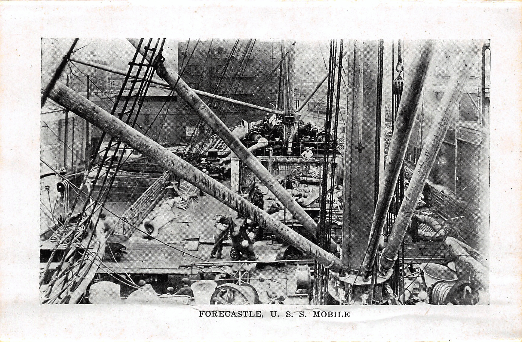 Forecastle, U.S.S. Mobile